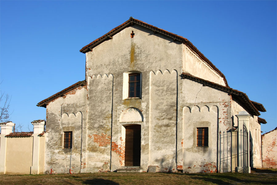 Saint Peter's church, Casalino, Novara, Italy